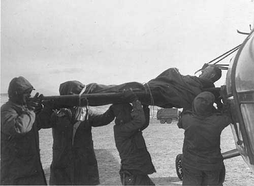 Wounded Marines of the 5th and 7th Regiments find rescue at hand, as do British Royal Marines and Republic of Korea troops.